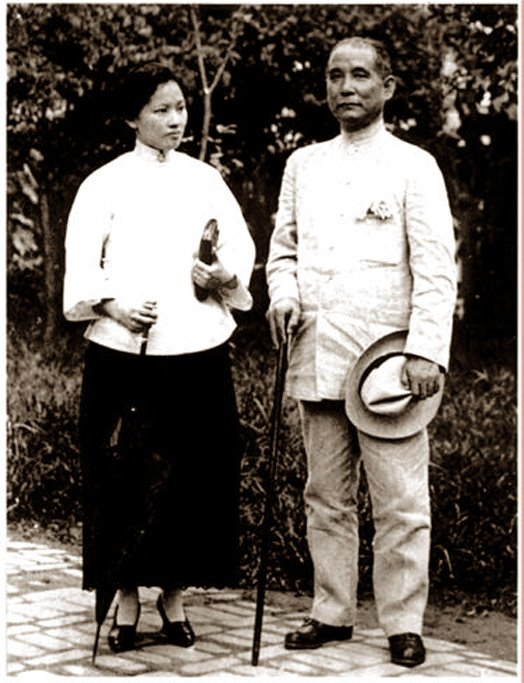 Sun Yat-sen and Soong Ching-ling in Guangzhou